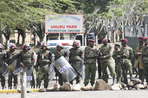 Recreation ground in Nairobi has been turned into a "Millitary Barracks" now. Police condon off Uhuru Park to bar opposition from holding there Mass protest rally.